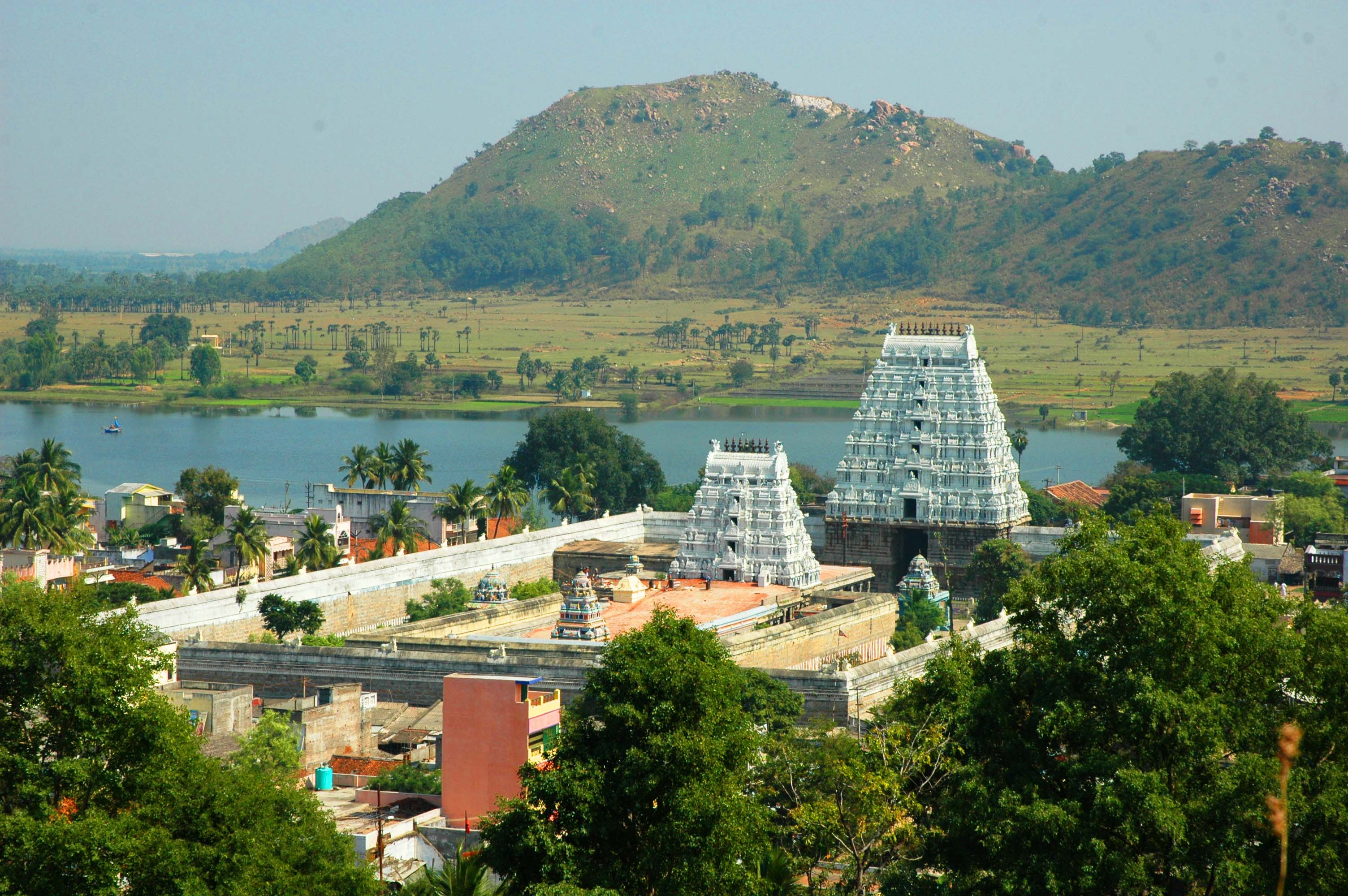 Devikapuram from Kanagagiri hills